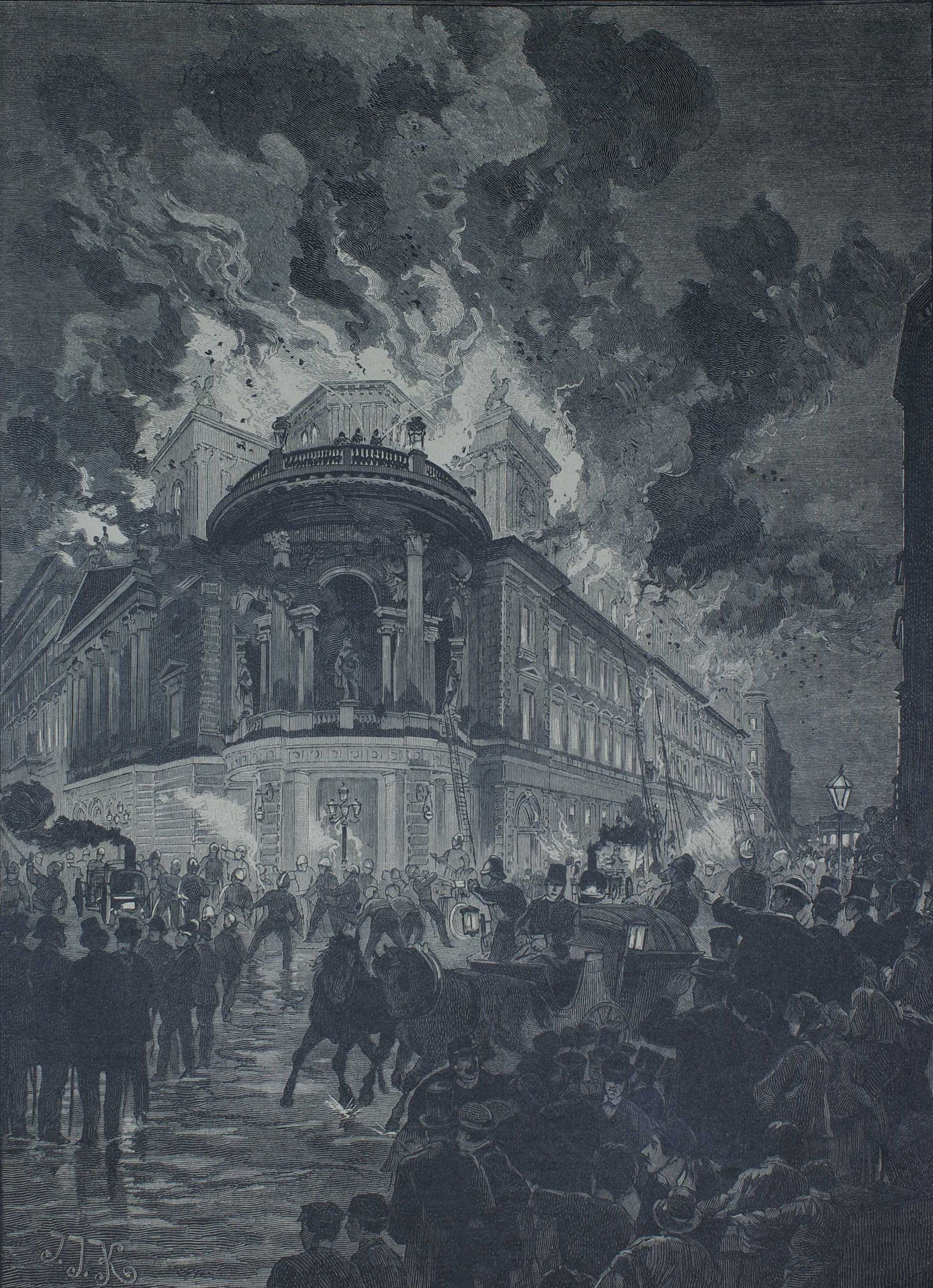 no caption